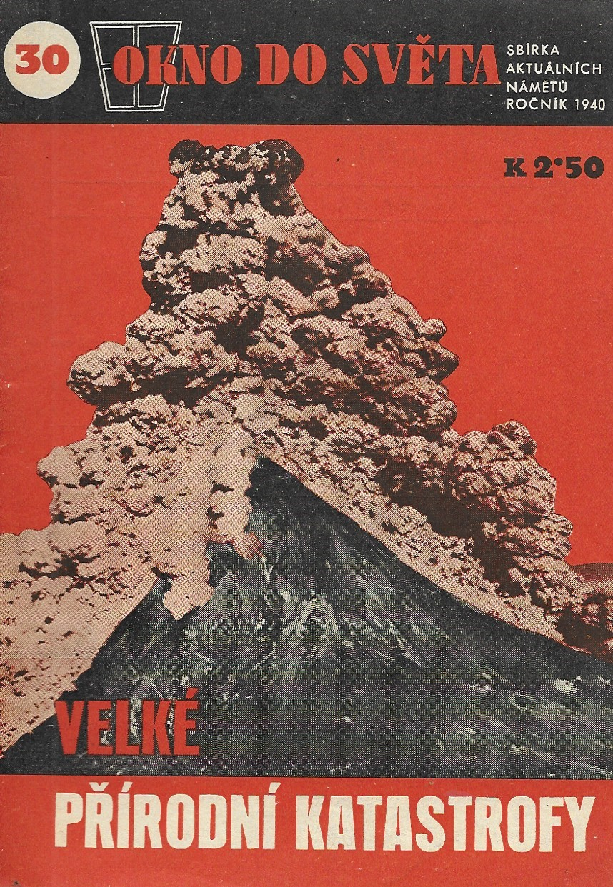 Okno do světa 30/1940, cover page